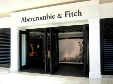 The image of Abercrombie & Fitch today.